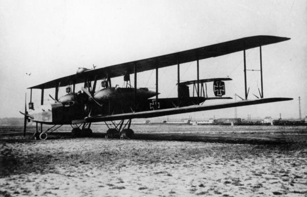 PictionID:43638840 - Catalog:16_004634 - Title:Zeppelin-Staaken R.V 13/15 in 1916 with original four-bladed propellers Nowarra photo - Filename:16_004634.TIF - - - - - - - Image from the Ray Wagner Collection. Ray Wagner was Archivist at the San Diego Air and Space Museum for several years and is an author of several books on aviation --- ---Please Tag these images so that the information can be permanently stored with the digital file.---Repository: San Diego Air and Space Museum